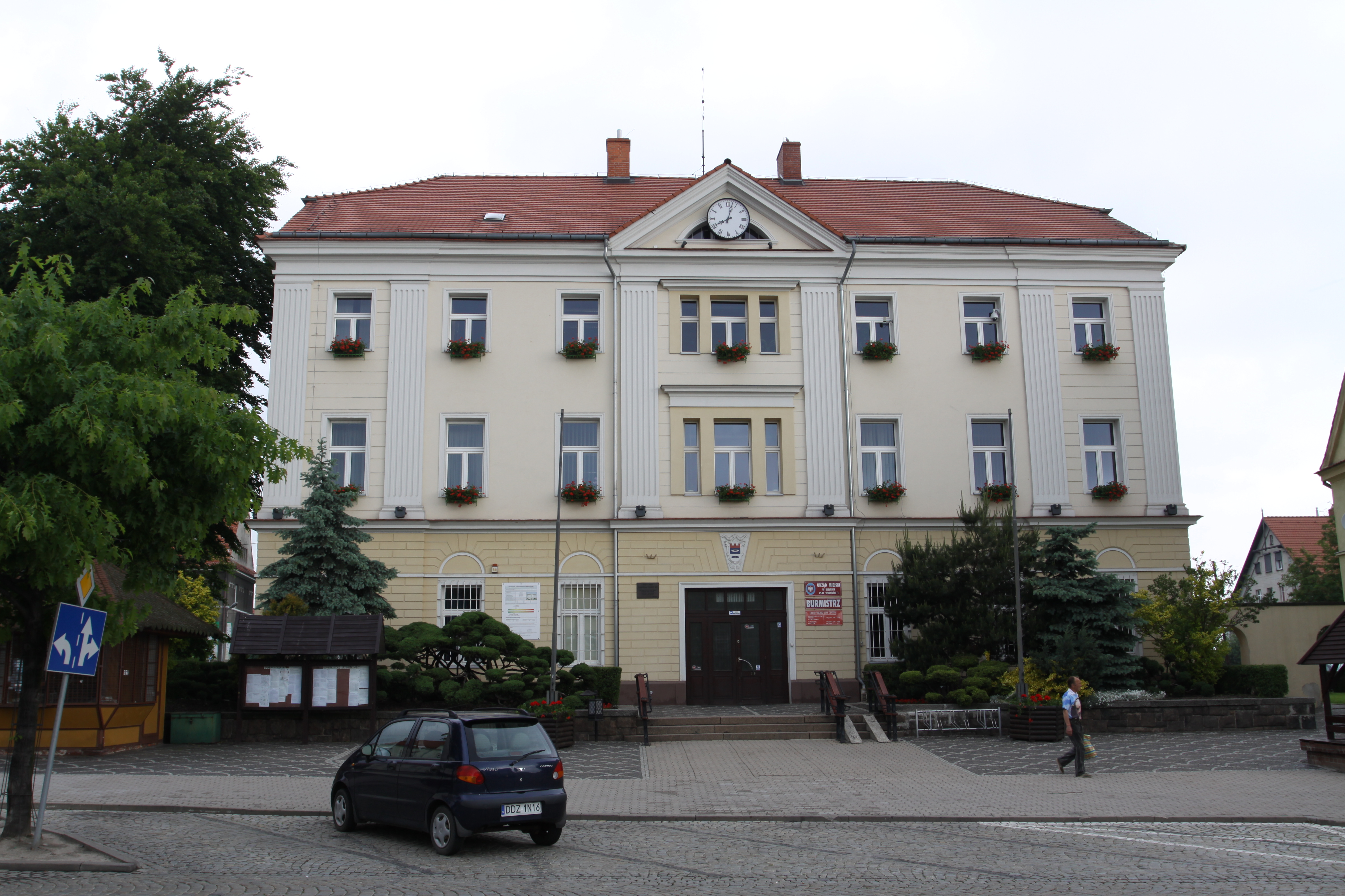 Bielawa, a town in south-western Poland situated in Dzierżoniów County, Lower Silesian Voivodeship